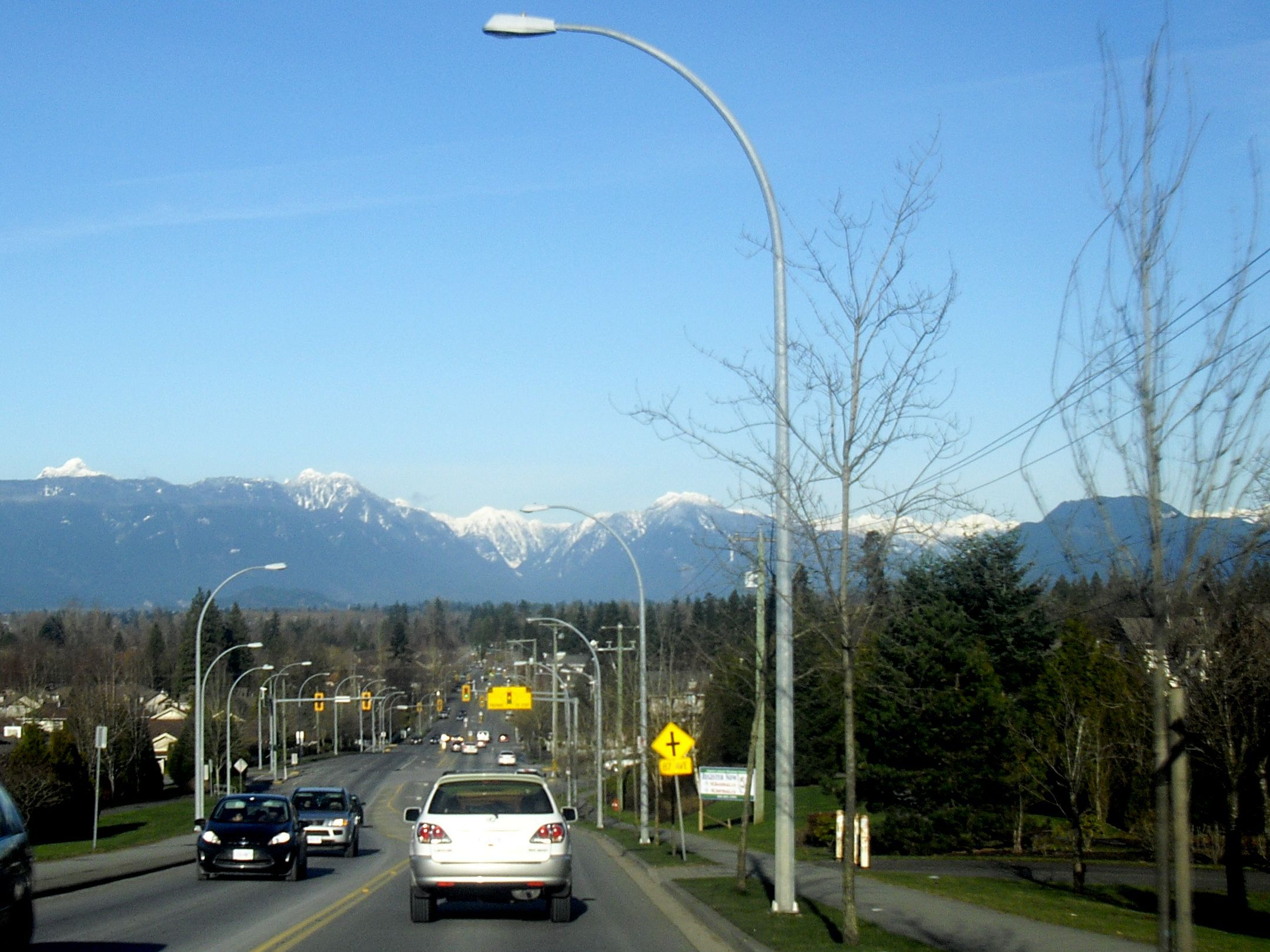 Mountain view from Coast Mountains, taken from 208th Street bridge over Highway 1